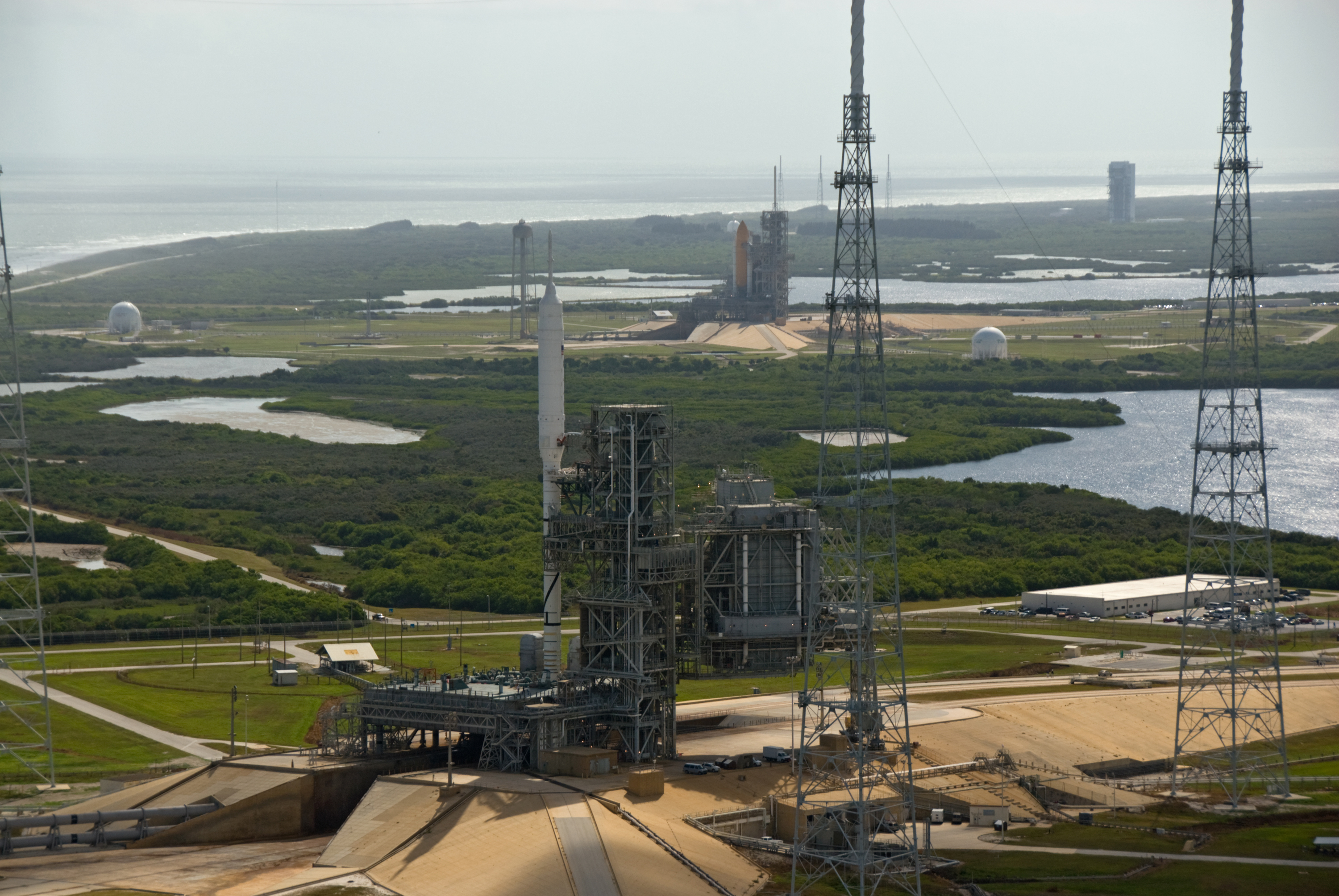 CAPE CANAVERAL, Fla. – At NASA's Kennedy Space Center in Florida, processing of the Ares I-X rocket nears completion on Launch Pad 39B, in the foreground, as space shuttle Atlantis awaits liftoff from Launch Pad 39A in the distance. The Ares I-X flight test is set for Oct. 27; space shuttle Atlantis' STS-129 launch to the International Space Station is targeted for Nov. 16.